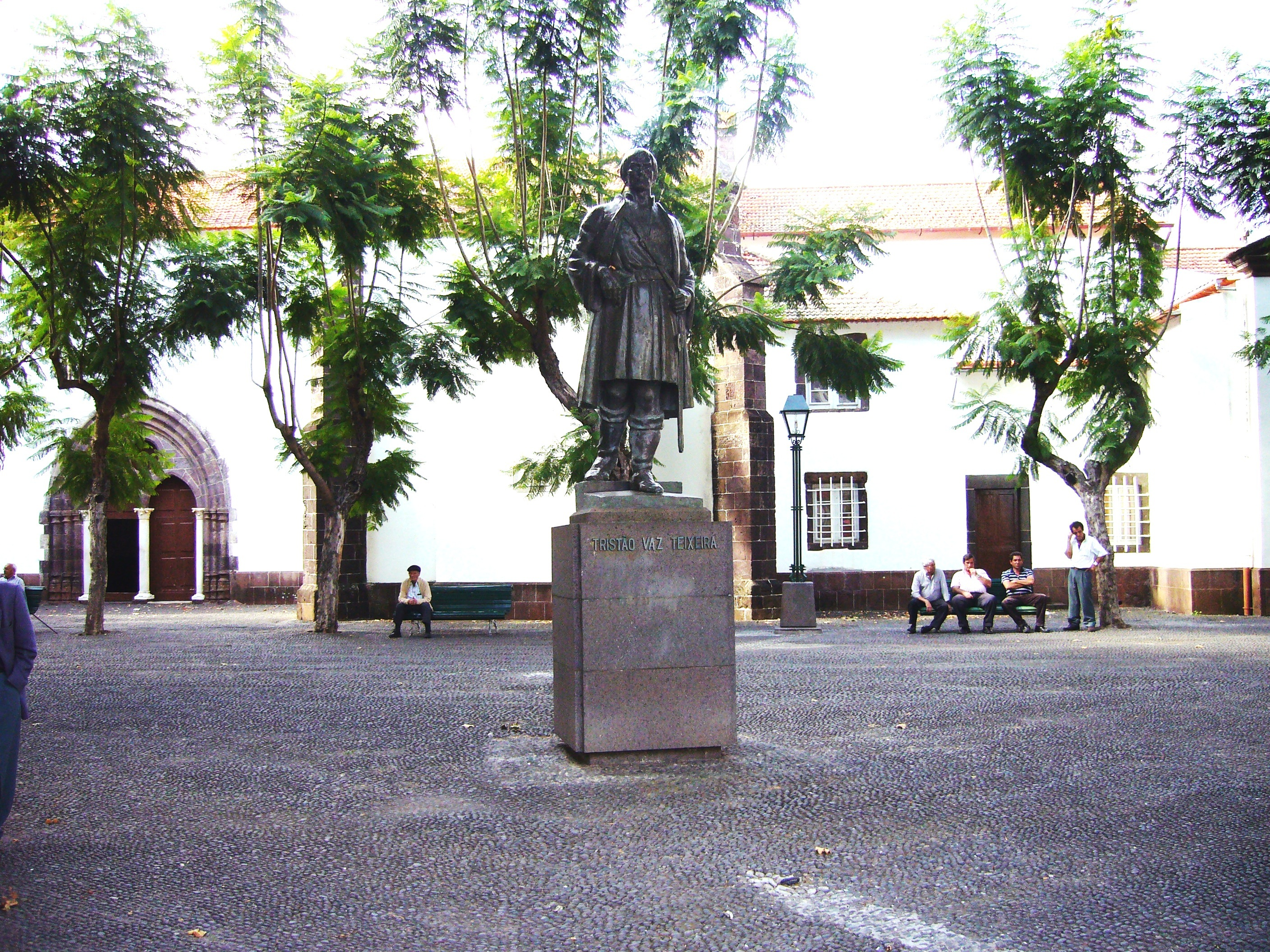 Statue of Tristăo Vaz Teixeira in Machico